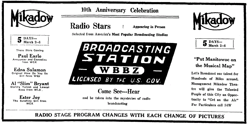 Advertisement for the "Radio Stars" program at the Mikadow Theatre in Manitowoc, Wisconsin, which would also be broadcast locally by C. L. Carrell's portable radio station, WBBZ.